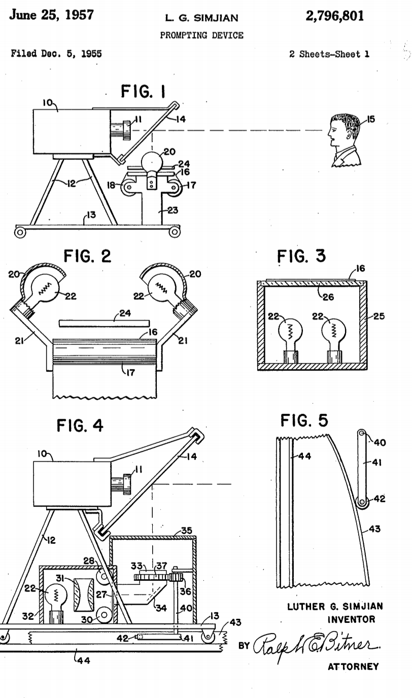 Luther Simjian